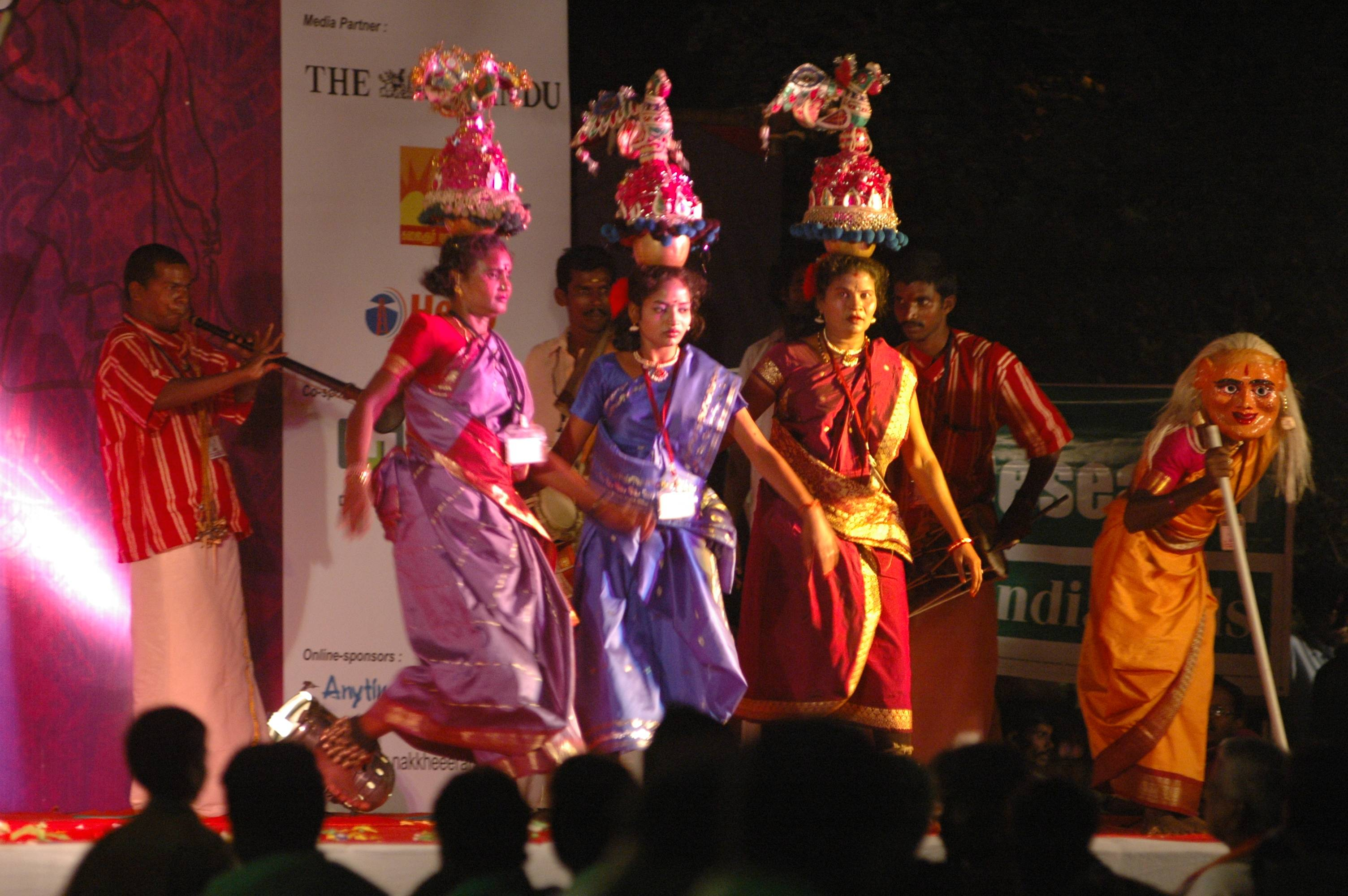 Karakaatam - the south Indian art of dancing with a decorated pot on the artiste's head